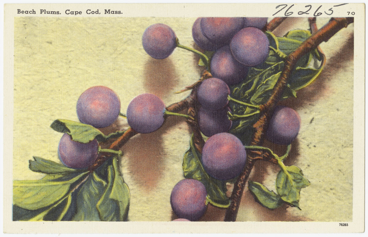 File name: 06_10_000241 Title: Beach Plums, Cape Cod, Mass. Created/Published: Tichnor Bros. Inc., Boston, Mass. Date issued: 1930 - 1945 (approximate) Physical description: 1 print (postcard) : linen texture, color ; 3 1/2 x 5 1/2 in. Genre: Postcards Subjects: Plums Notes: Title from item. Collection: The Tichnor Brothers Collection Location: Boston Public Library, Print Department Rights: No known restrictions